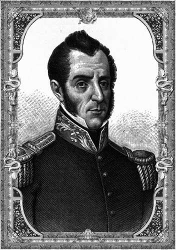 Self-portrait of Miguel Francisco Barragán Andrade, Lithograph (1870-1907).